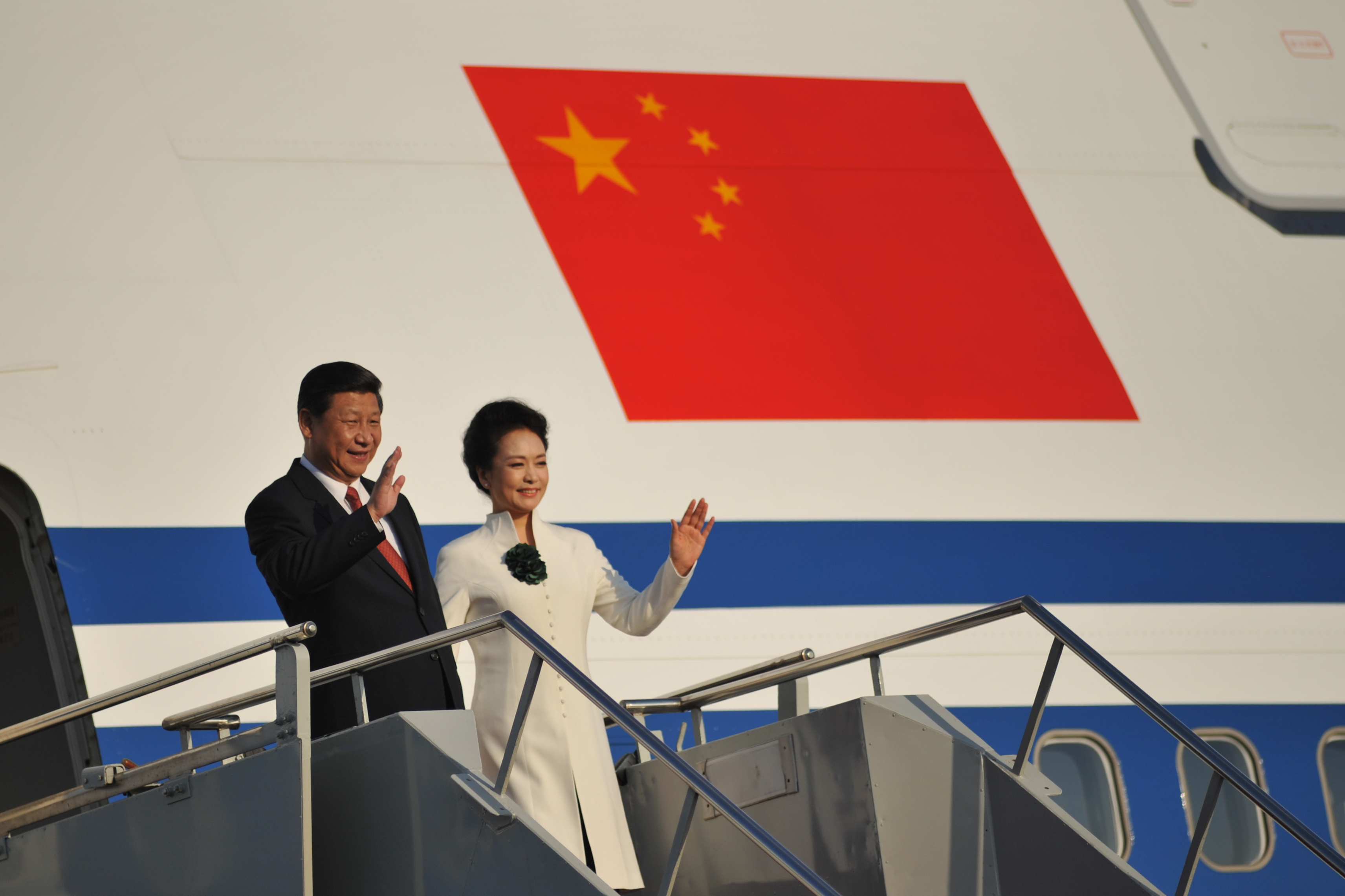 Presiden China, Xi Jinping bersama ibu negara mendarat di Bali, Indonesia untuk menghadiri KTT APEC 2013.